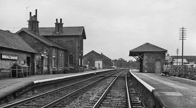 Burgh-le-Marsh Station. View SW, towards Boston, Spalding and Peterborough; ex-Great Northern secondary main line, Peterborough North - Spalding - Boston - Grimsby. This station was closed on 5/10/70, when, amazingly, the whole line north of Spalding was closed completely, except for Boston - Firsby South Junction (for Skegness).